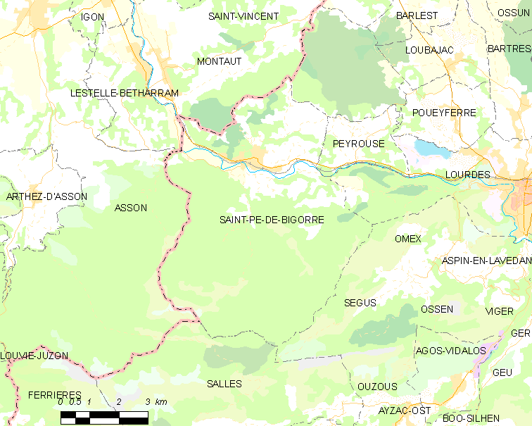 Map of French municipality